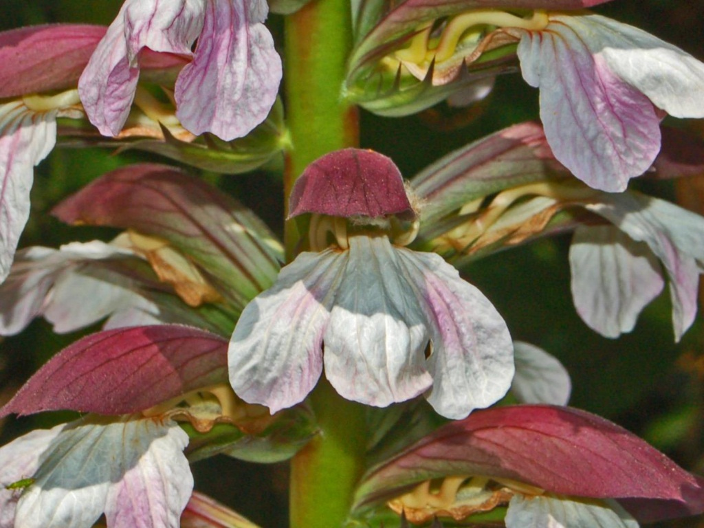 Acanthus mollis - S. Bernardo, Genova, Italy